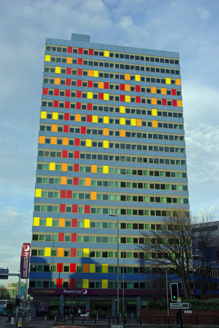 St George's Tower, Leicester. It was built in the 1960s and for many years was a British Telecom building. It has been refurbished and given this striking colour scheme. The Leicester City Centre Premier Inn opened here this month.